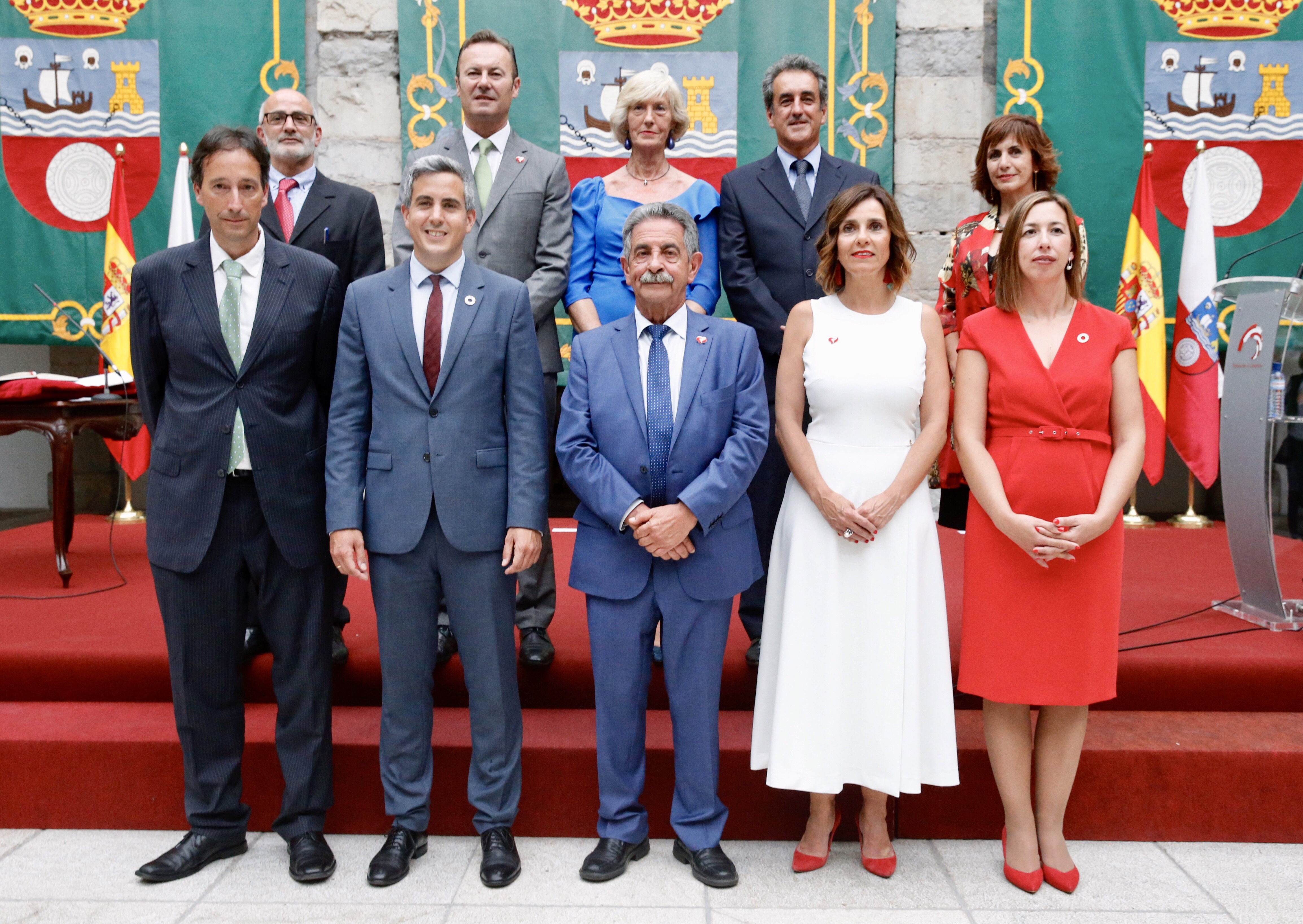 Government of Cantabria for the period 2019-2023: - President: Miguel Ángel Revilla. - Vice President and Minister for Universities, Equality, Culture and Sport: Pablo Zuloaga. - Minister for the Presidency, Interior, Justice and Foreign Action: Paula Fernández Viaña. - Minister of Public Works, Territory Planning and Urban Planning: José Luis Gochicoa González (PRC). - Minister for Economy and Finance: María Sánchez Ruiz (PSC-PSOE). - Minister for Education, Vocational Training and Tourism: Marina Lombó Gutiérrez (PRC). - Minister for Rural Development, Livestock, Fisheries, Food and Environment: Juan Guillermo Blanco Gómez (PRC). - Minister for Innovation, Industry, Transport and Commerce: Francisco Martín Gallego (Independent by PRC). - Minister for Health: Miguel Javier Rodríguez Gómez (PSC-PSOE). - Minister for Employment and Social Policies: Ana Belén Álvarez Fernández (PSC-PSOE).